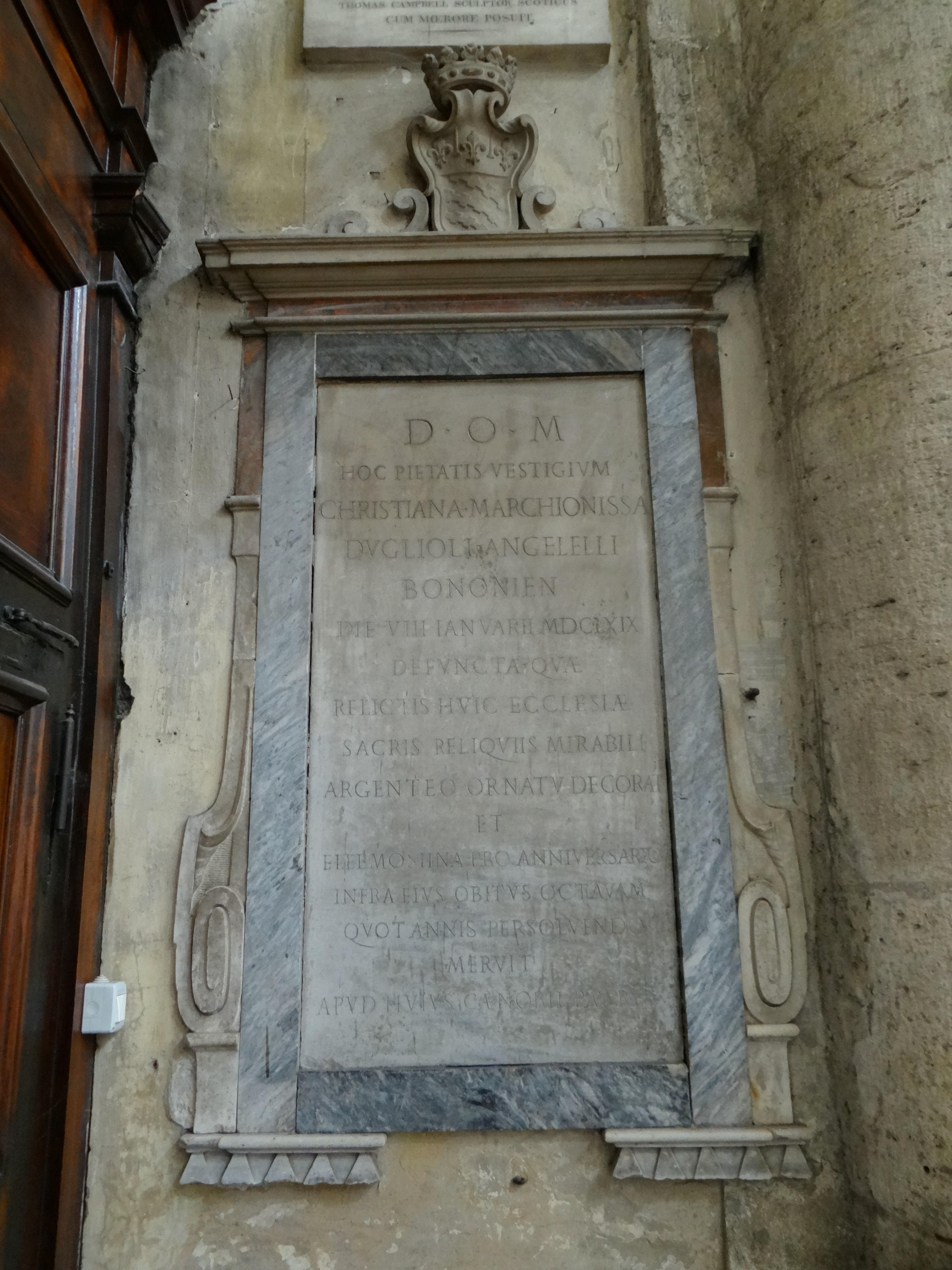 The monument of Marquise Cristiana Duglioli Angelelli in the Basilica of Santa Maria del Popolo (after 1669).